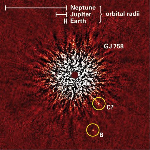 Published press image (labeled) of the GJ 758 system provided in media kit from the Max Planck Institute for Astronomy